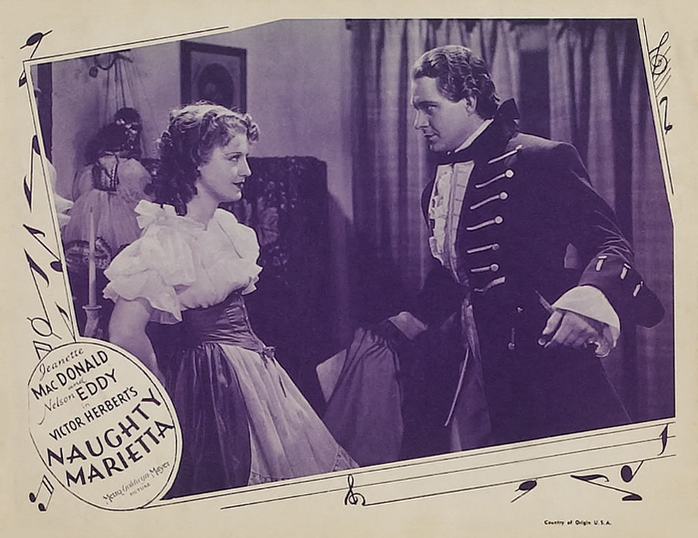 Lobby card for the 1935 MGM film Naughty Marietta